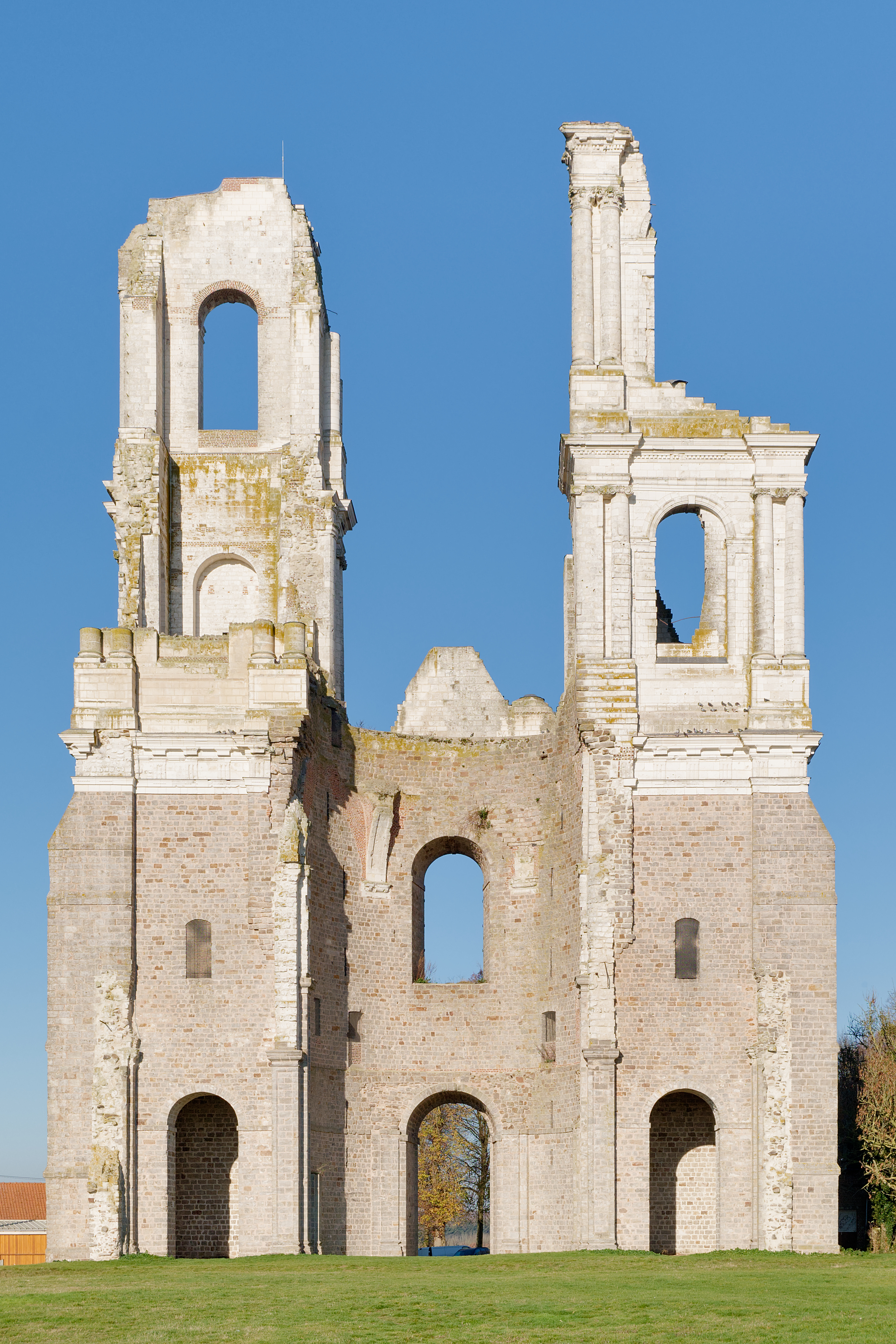 Ancienne abbaye de Mont-Saint-Éloi: vue intérieure de la façade avant.